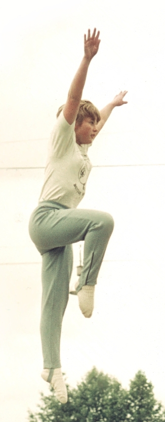 Milena Duchkova, winner olympics high diving 1968 and 1972, taken 1970 in Zurich/CH